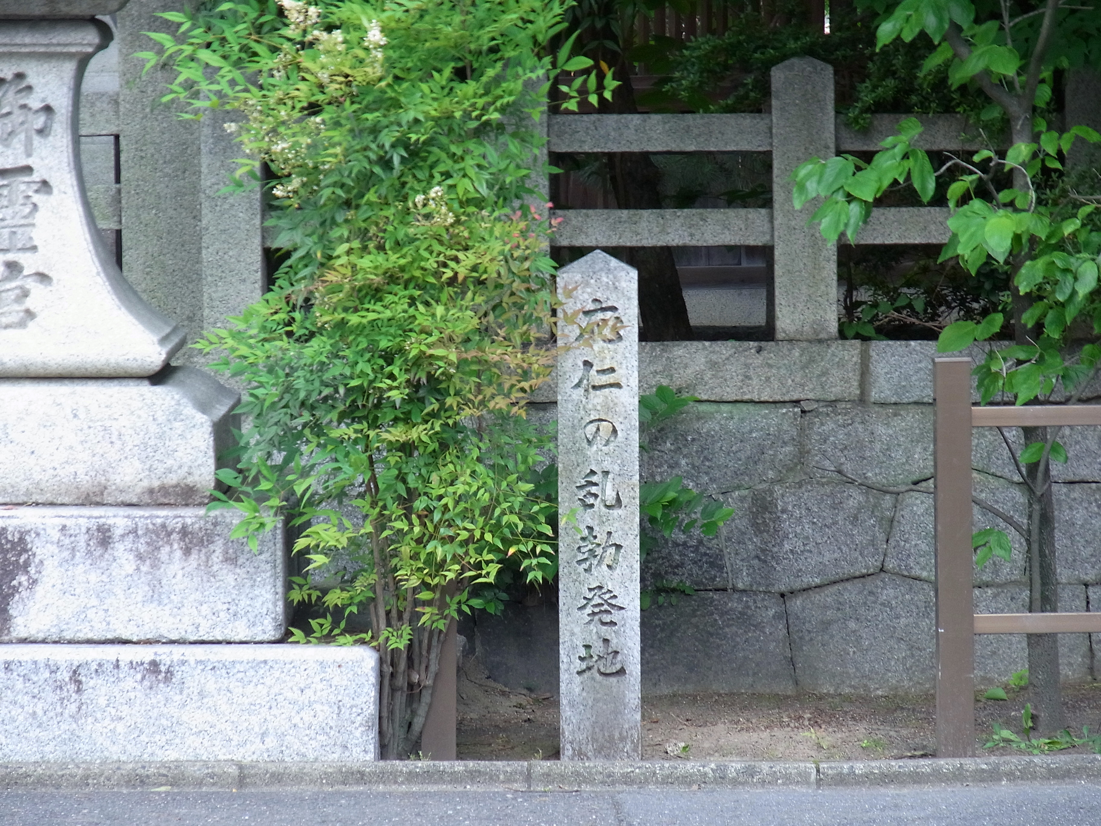 Ōnin War monument at Kamigoryō-jinja.